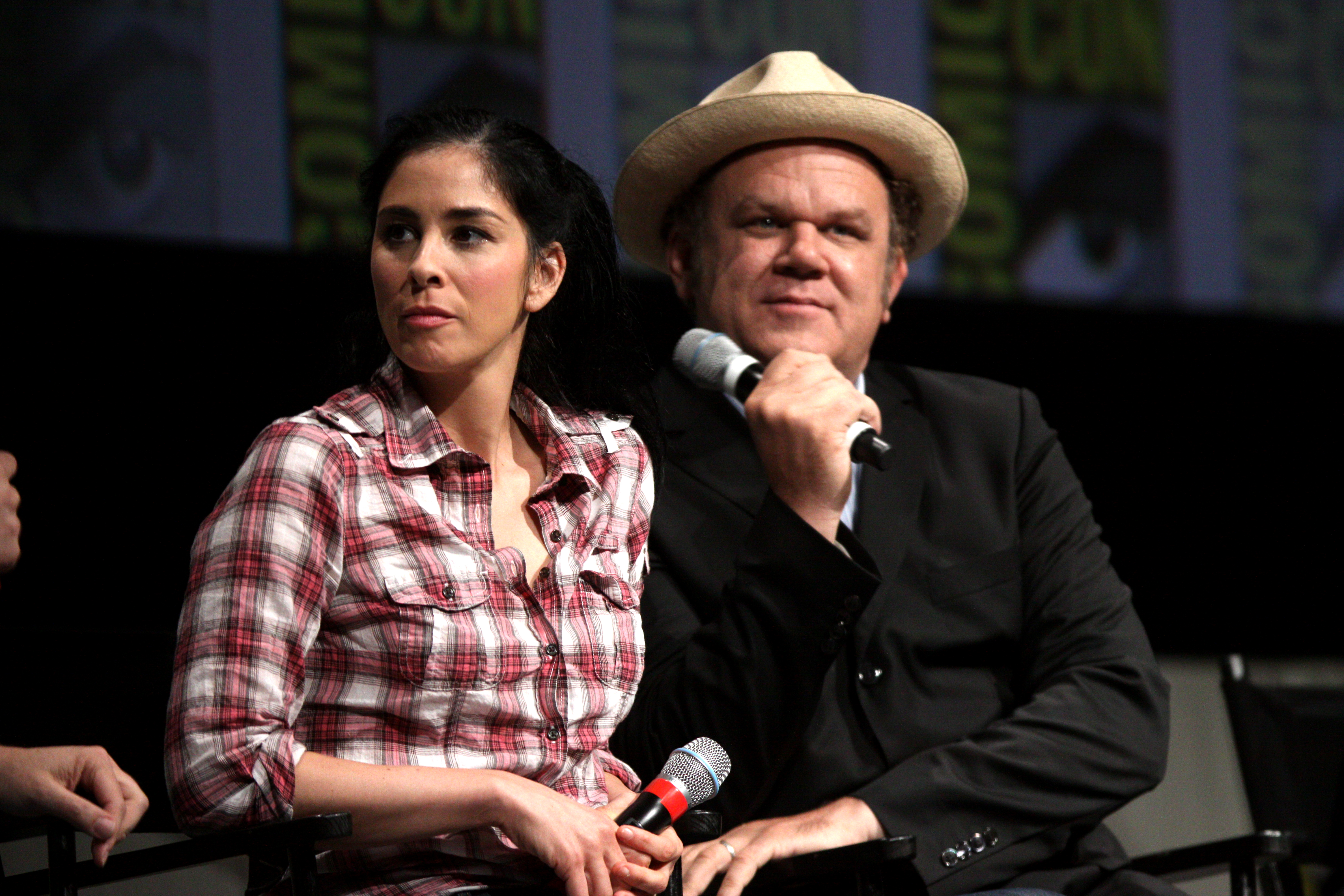 Sarah Silverman & John C. Reilly speaking at the 2012 San Diego Comic-Con International in San Diego, California.